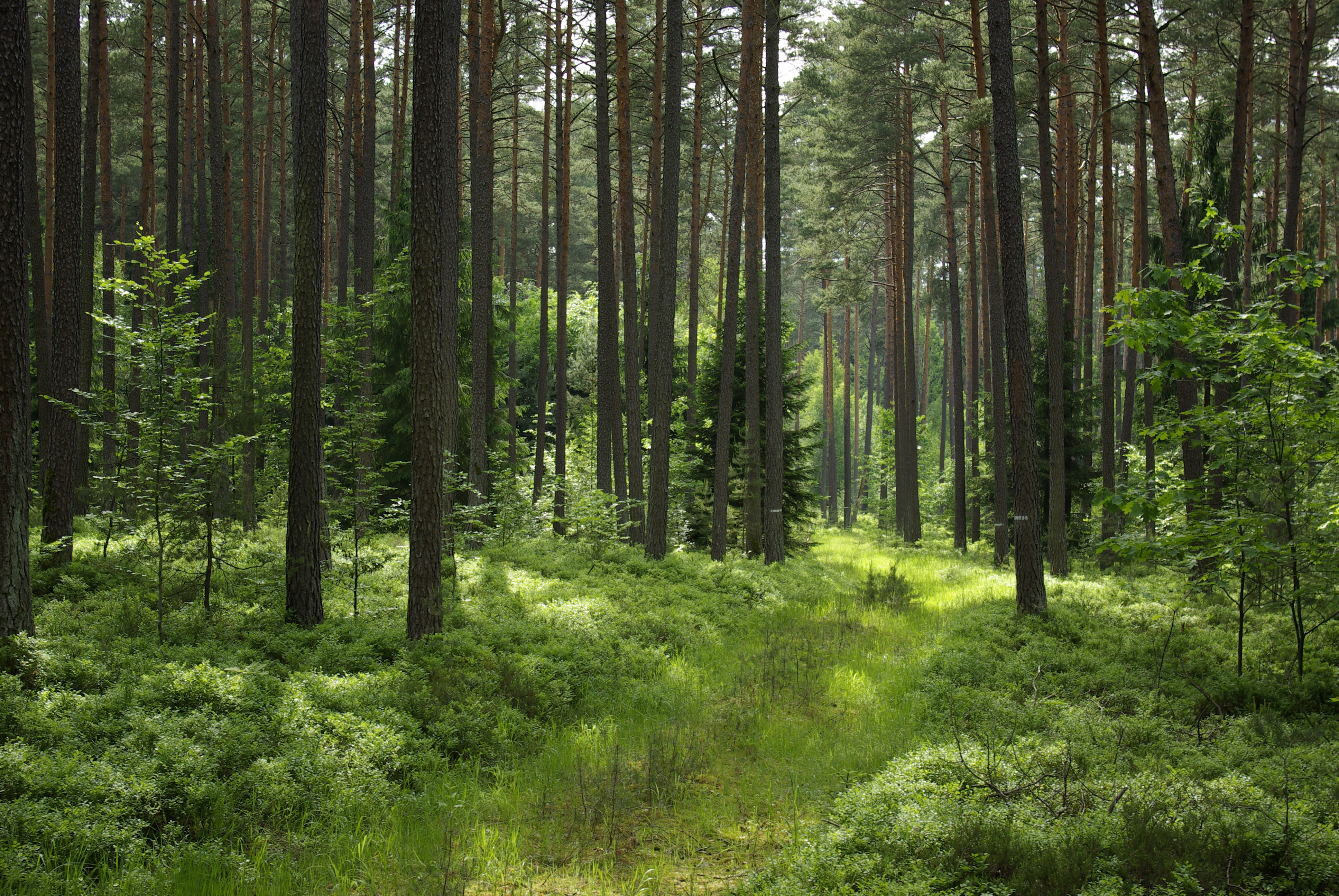 "Zigeunereck" area of Buckenhof forest within "Sebalder Reichswald" forest (unincorporated area part in Erlangen-Höchstadt district, Bavaria, Germany); part of the "Nürnberger Reichswald" Special Protection Area (Birds Directive) no. 6533-471 "Nürnberger Reichswald"